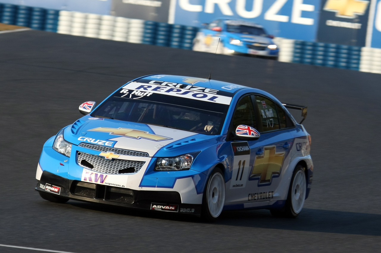 World Touring Car Championship 2009 Race of Japan: Robert Huff (Chevrolet)